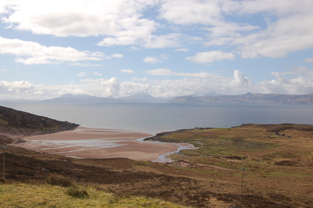 Sand Bay and the Inner Sound, 4 km from Lonbain, Highland, Great Britain.